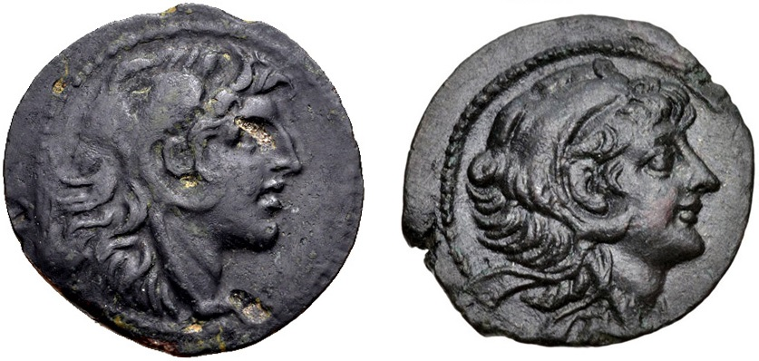 For the image of Balas: 316, Lot: 170. Estimate $100. Sold for $60. This amount does not include the buyer’s fee. SELEUKID KINGS of SYRIA. Alexander I Balas. 152-145 BC. Æ (19mm, 6.23 g, 12h). Antioch on the Orontes mint. Head of Alexander I right, wearing lion skin headdress / Apollo standing left, holding arrow and grounded bow; star to outer left. SC 1795.2; HGC 9, 901. Near VF, dark green patina. Scarce. From the J. P. Righetti Collection. For the image of Zabinas: CNG 84, Lot: 701. Estimate $300. Sold for $200. This amount does not include the buyer’s fee. SELEUKID KINGS of SYRIA. Alexander II Zabinas. 128-122 BC. Æ (21mm, 7.30 g, 12h). Antioch mint. Series 2, struck circa 126/5 BC. Head right wearing lion skin / Nike advancing left, holding wreath and palm frond; to inner left, monogram above palm frond. SC 2231.1d; HGC 9, 1162. EF, dark green-brown patina.